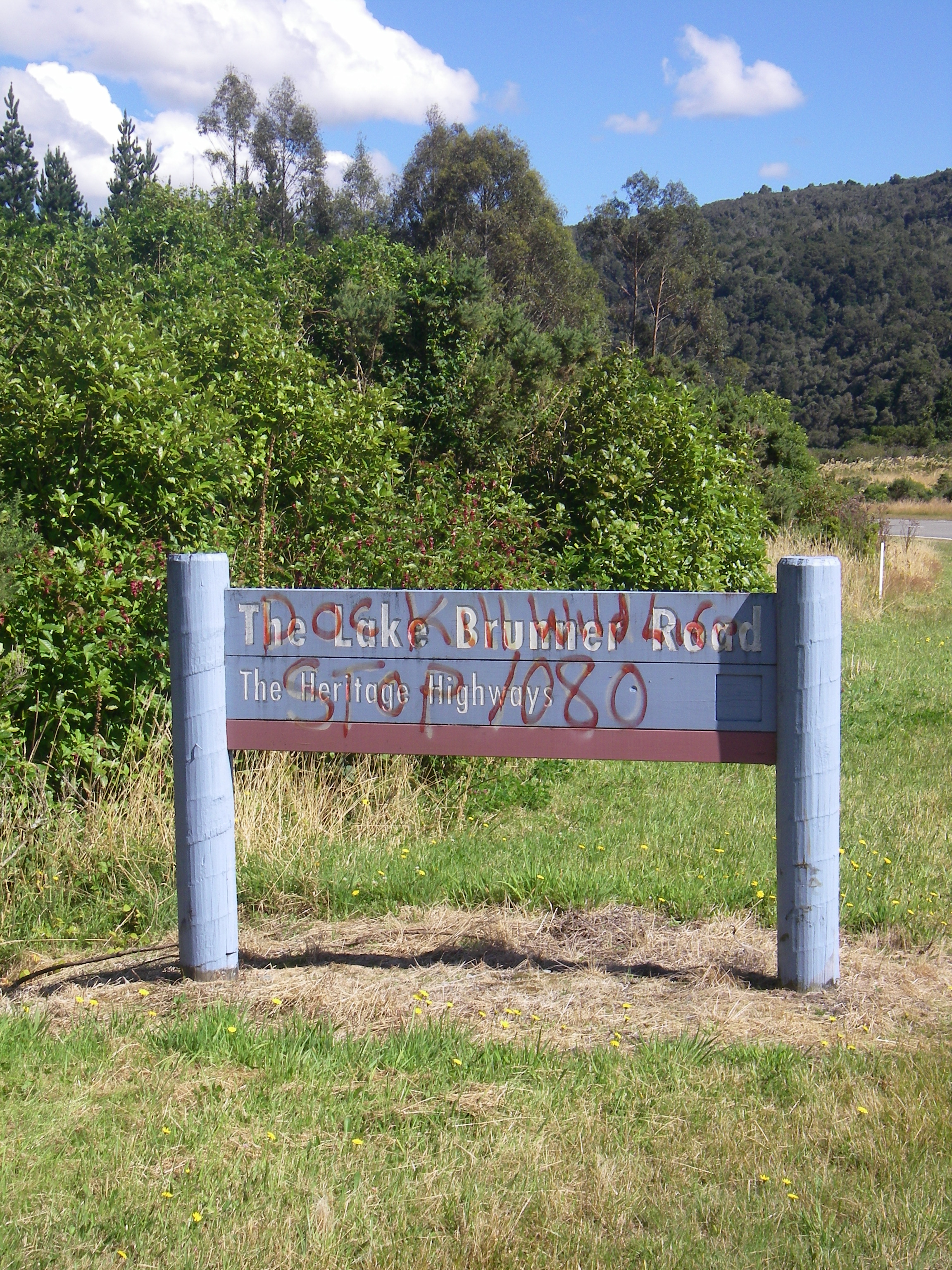 A defaced roadside sign between Inchbonnie and Jacksons in the South Island of New Zealand. The sign reads "The Lake Brunner Road The Heritage Highways" and is defaced with the message "DOC Kills Wild Life STOP 1080. It is in reference to the use of sodium fluoroacetate to kill the invasive, introduced possums which create problems for agriculture and biodiversity.